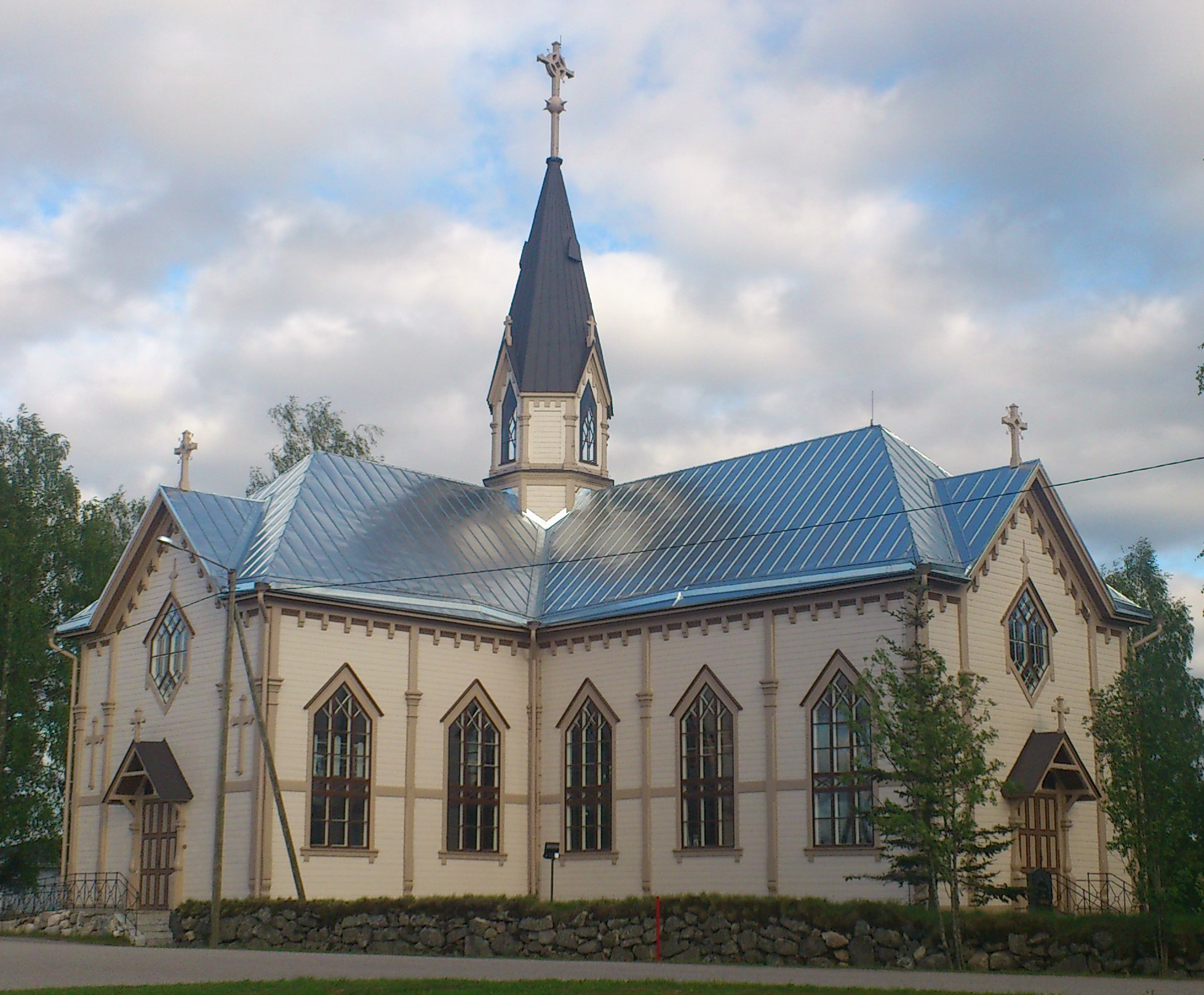 Reisjärvi church (lutheran), Finland, June 1st 2014